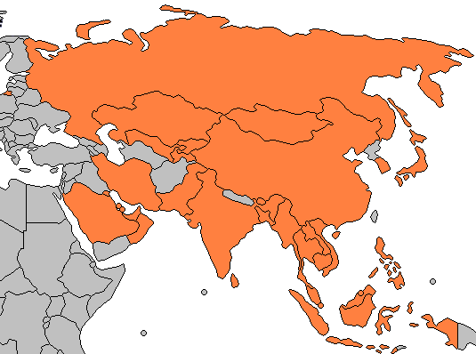 Asia Cooperation Dialogue Map, hand drawn